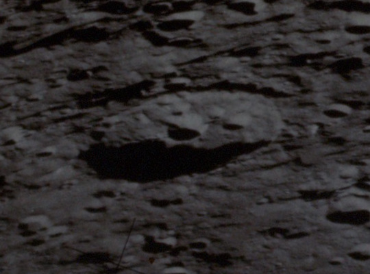 Oblique view of Konstantinov, on the far side of the moon. North at left.